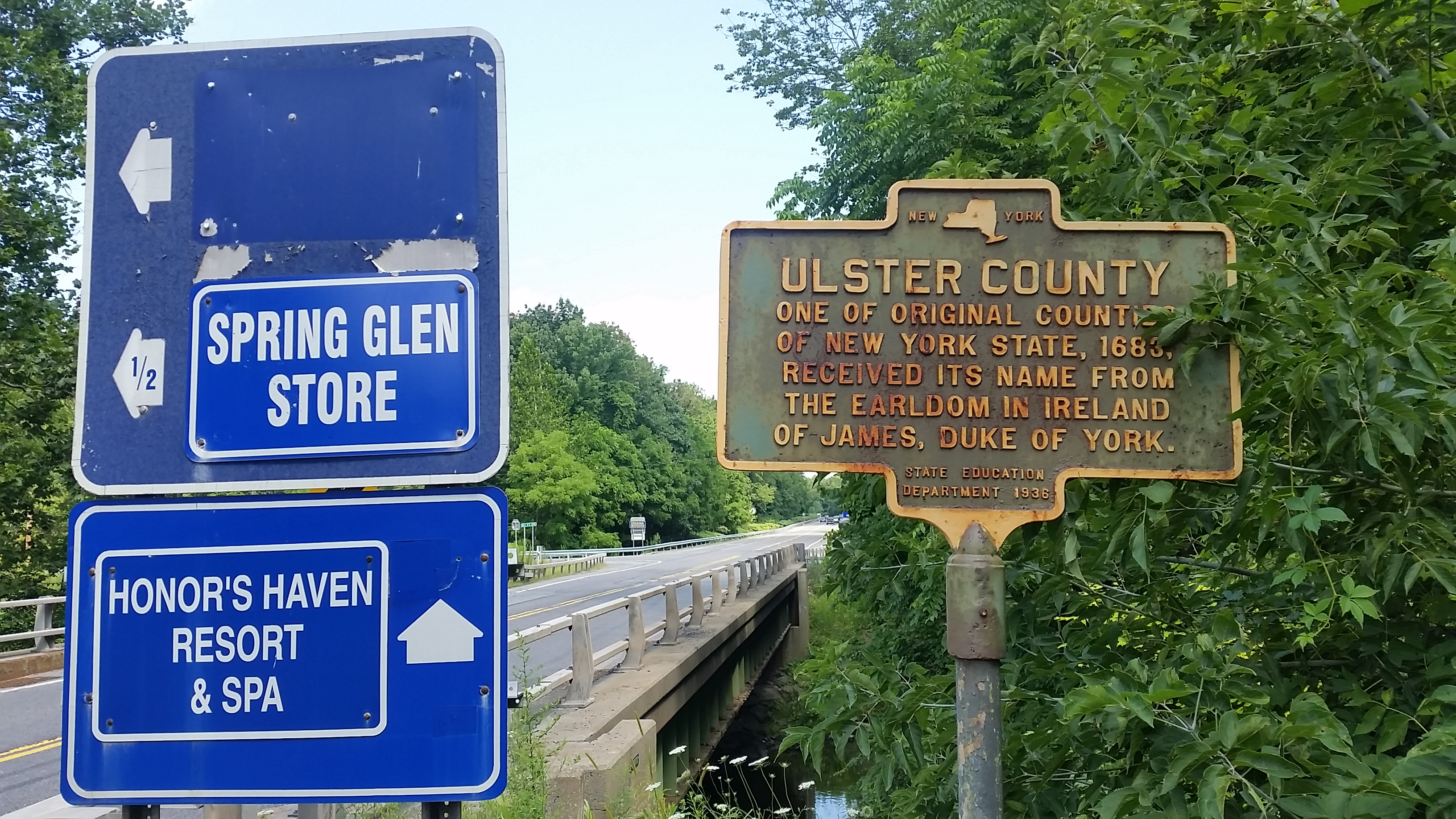 New York State historical marker for entrance to Ulster County, NY from the south, on Route 209.